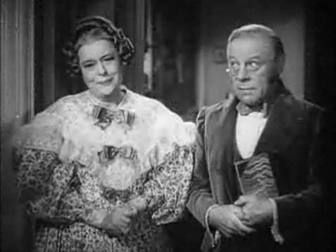 Cropped screenshot of Mary Boland and Edmund Gwenn from the trailer for the film Pride and Prejudice